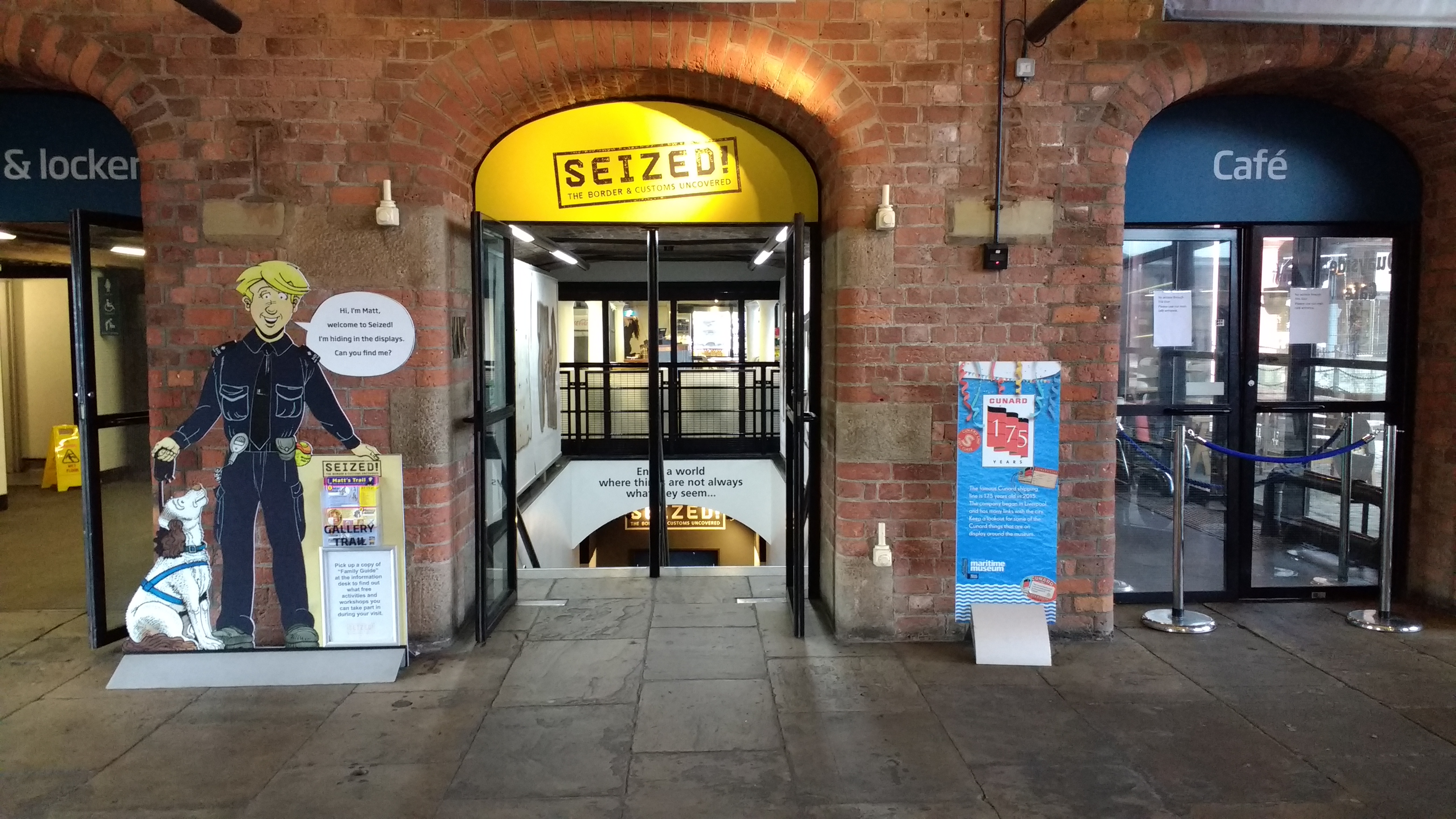 The entrance to Seized! The Border and Customs Uncovered, located inside the Merseyside Maritime Museum.